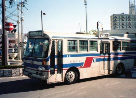 Fleet of Tosu Kotsu (now Nishitetsu Bus Saga)